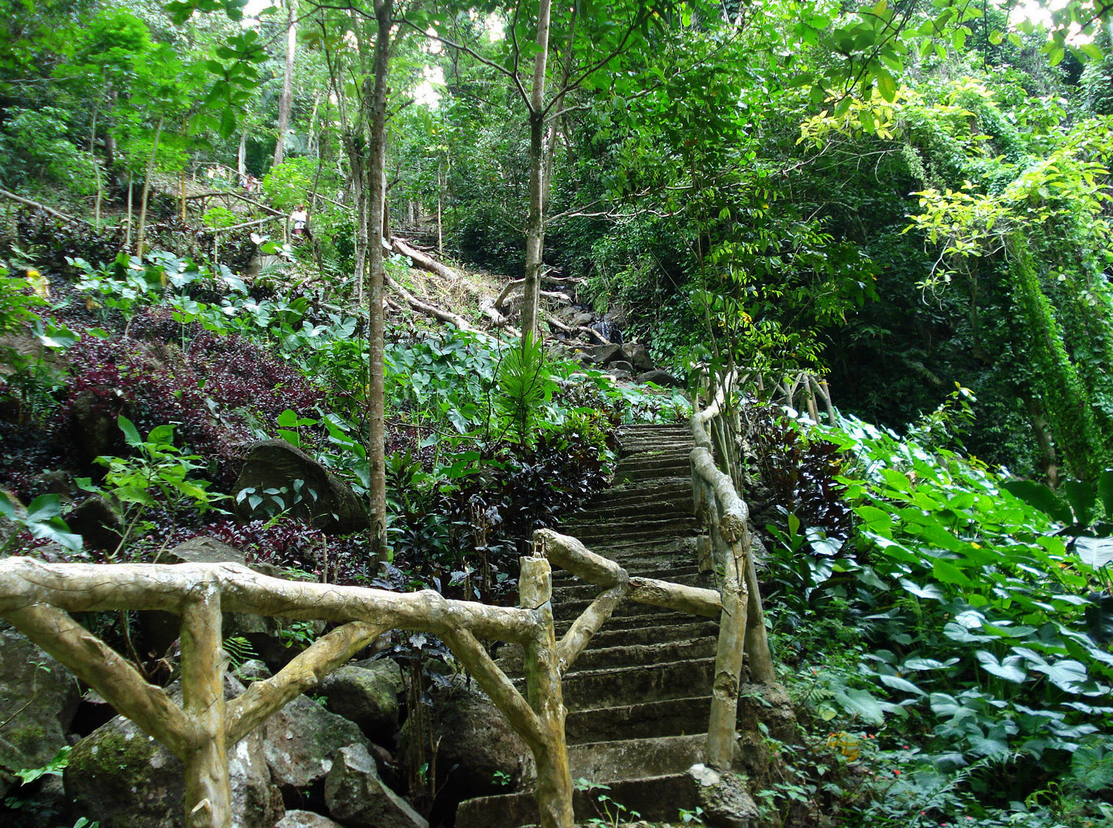 Trekking to the falls requires approximately 500 descending steps called the winding staircase.